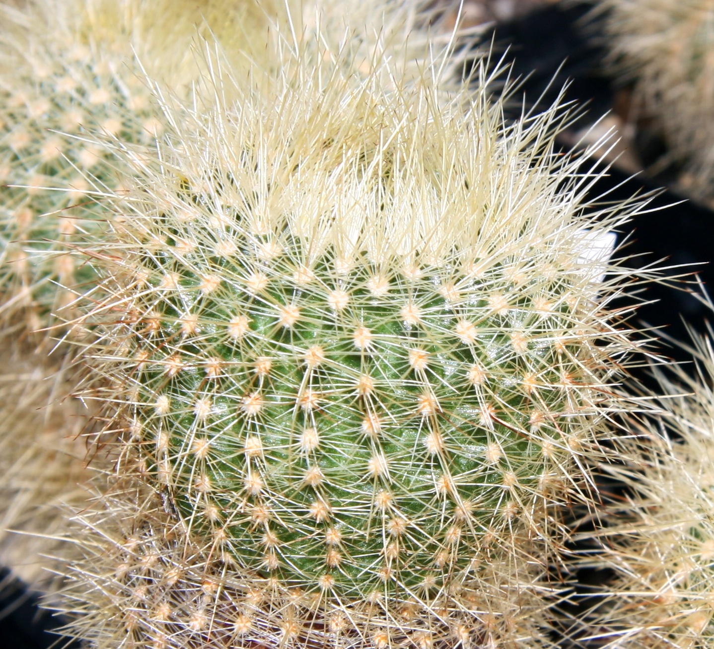 plant from type localiyt, Santa Catarina, Brasil